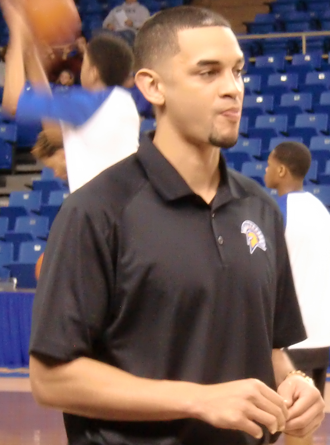 Former San Jose State University basketball player Adrian Oliver attends the San Jose State season finale against Boise State on March 5, 2016.